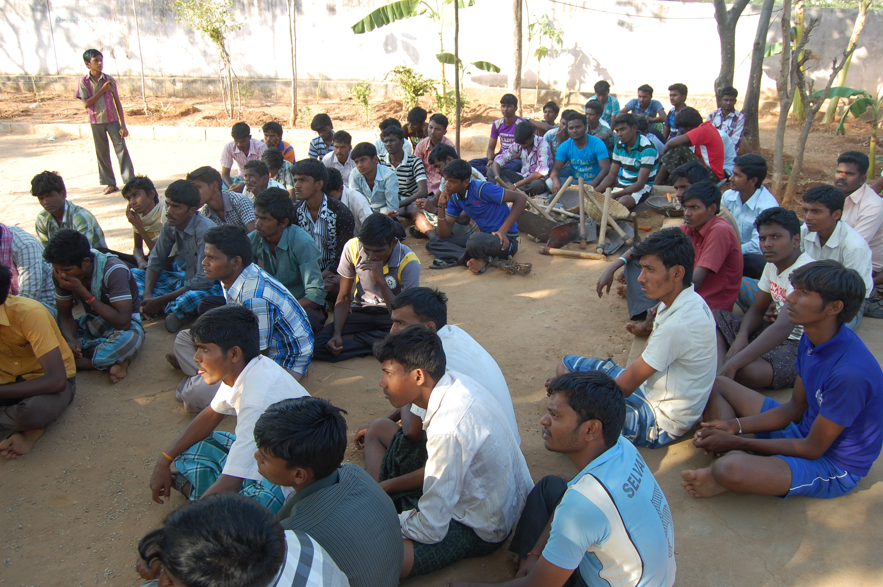 Participants of Tamil Wikipedia Workshop held at Masilapalaiyam, Mettur Block, Salem Dt., Tamil Nadu, India on 03.03.2012.